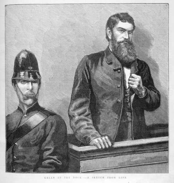 "Ned Kelly in the Dock - A Scene from Life" Ned Kelly in the dock during his trial. Wood engraving published in The Illustrated Australian News.